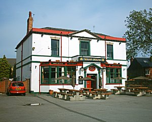 The Sheaf House pub in Highfield (Sheffield).